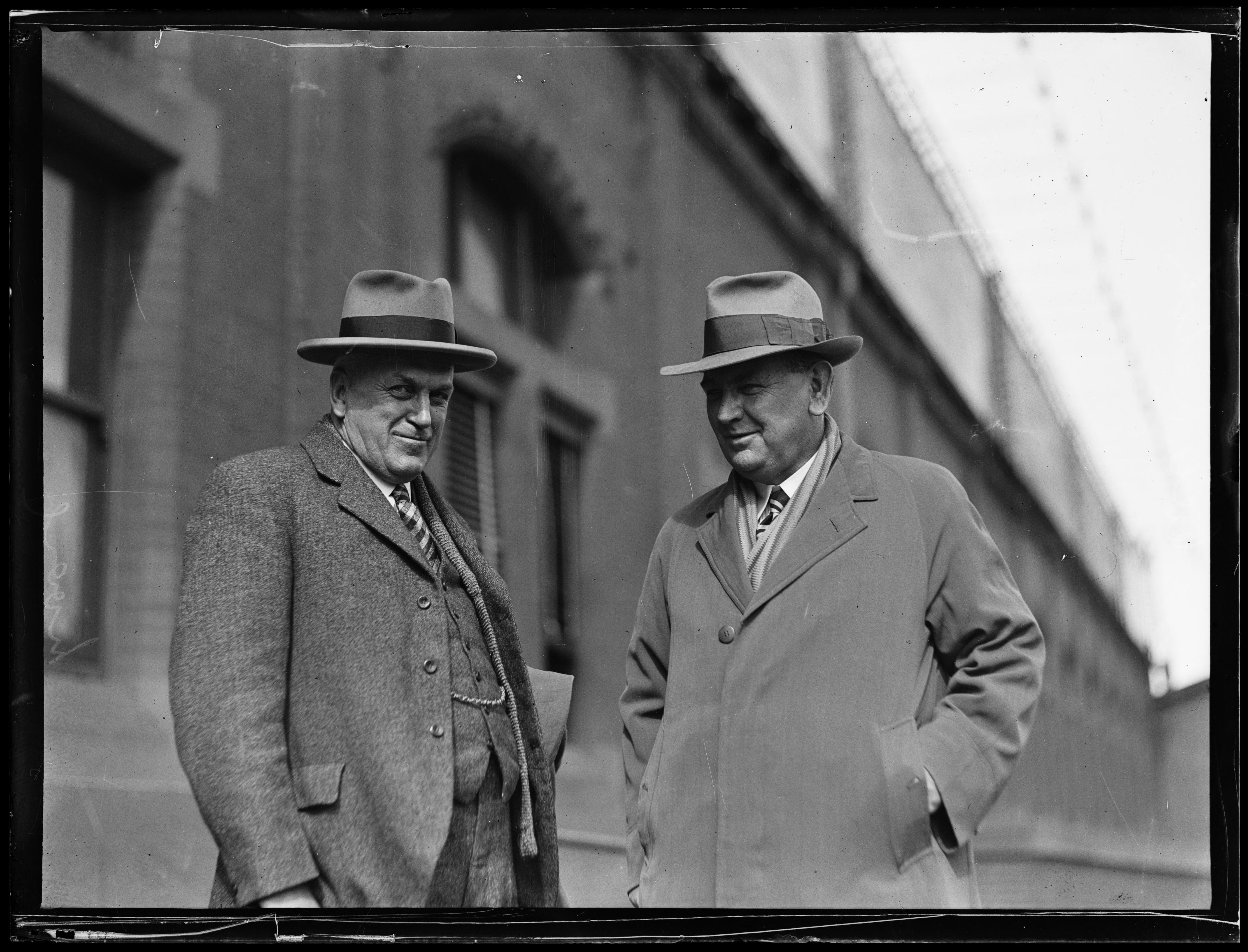 Australian politicians Arthur Edward Moore (Premier of Queensland) and Hal Colebatch (Senator for Western Australia) in Sydney